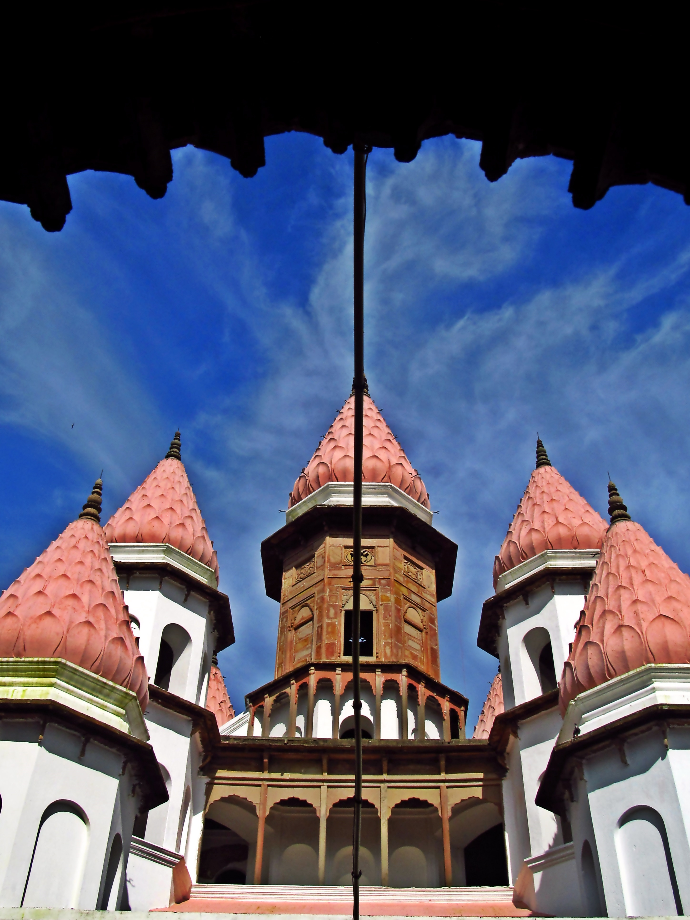 Haneswari and Vasudev temples Hangseshwari temple from inside the vasudev temple